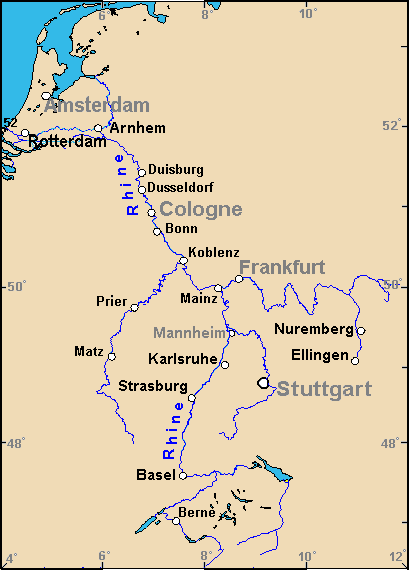 Map of the Rhine watershed in northwest Germany, showing largest cities, islands and river names. Large city names (6) have been re-labeled with font-face Arial or Arial Narrow, as font-size 9 or 10; the island/region names are labeled in italic font. Germany contains over 3,500 cities/towns, but they are evenly dispersed around the main towns. This map has locator code "GermanyRhine" for use in map-locator templates, such as English Wiki Template:Location_map_GermanyRhine & Template:Location_map_skew (which skews northern coordinates for multiple map markers / labels, skew=0.91). The latitude/longitude coordinates are equirectangular, with longitudes parallel from south to north: the longitudes at the bottom range exactly 4-12 degrees, and at top, also range 4-12 degrees apart. The latitude is calibrated for exactly 46.5-53.5 degrees N. The original map image has a GFDL license; the extensions are as follows: narrowed 105px as 409px to magnify 26%; some river names have been added; bolded names of towns to be readable as 220px thumbnail size; added river name: Rhine, etc.